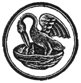 The first logo of Pelikan, based on the Wagner family coat of arms.